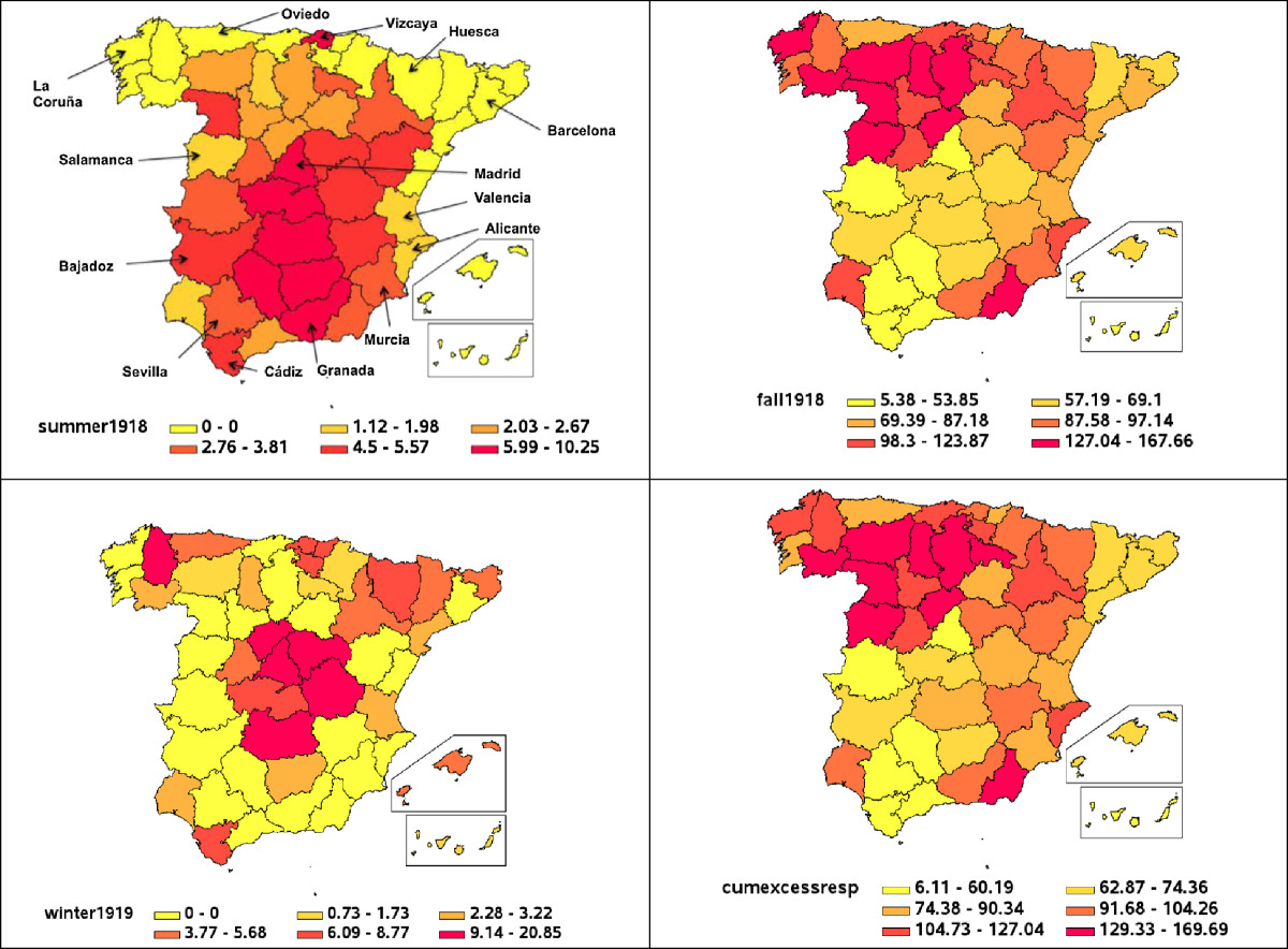 Maps of excess respiratory deaths rates per 10,000 across provinces of Spain. Maps are shown for three pandemic periods corresponding to spring (May 1918-July 1918), fall (August 1918-December 1918), and winter (January 1919-April 1919) pandemic waves and the cumulative excess respiratory death rate associated with the 1918–1919 influenza pandemic.